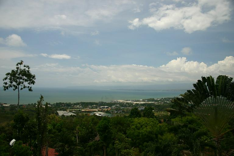 A scenic view of Cagayan de Oro City, Philippines.